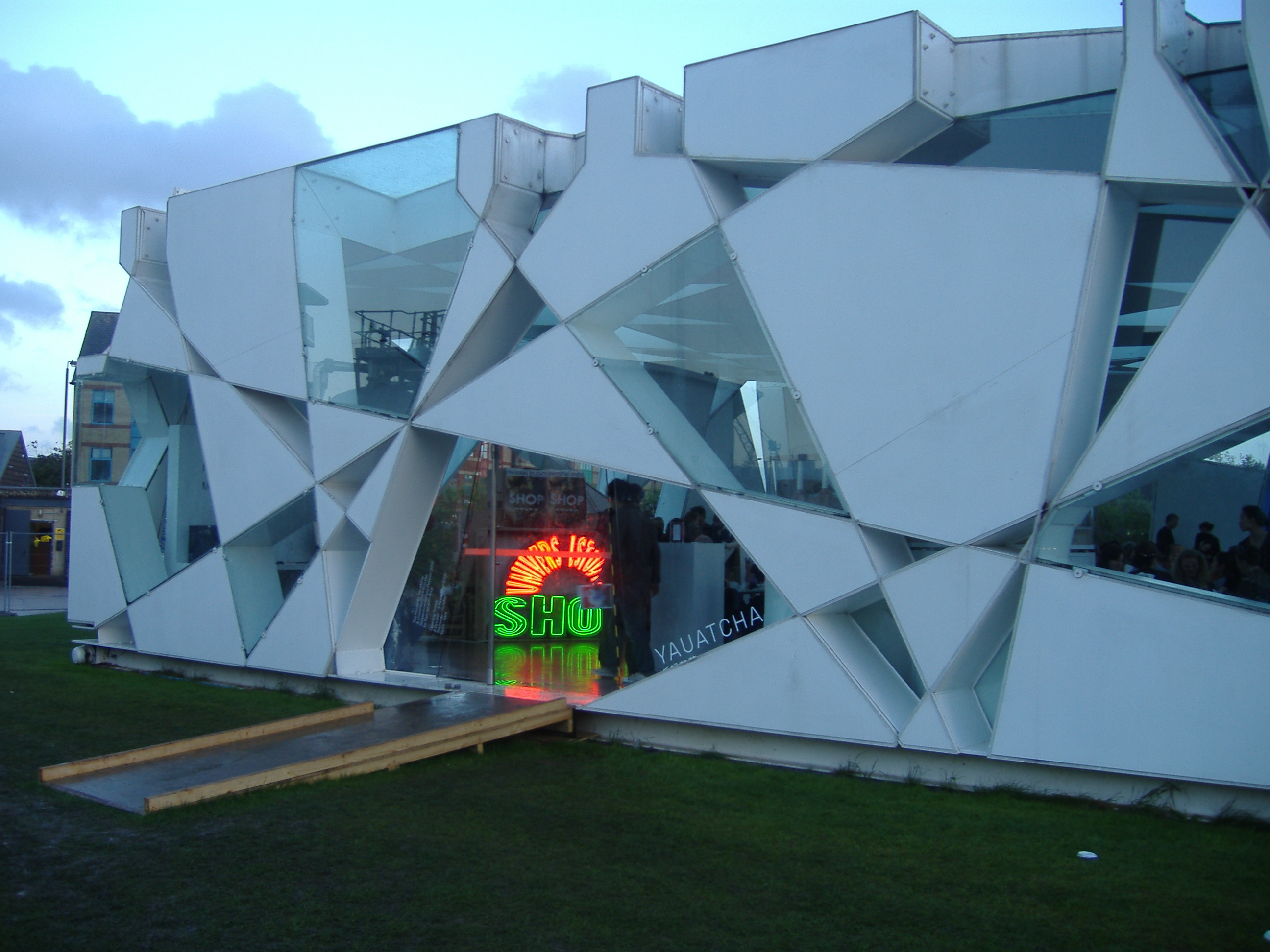 Serpentine Gallery Pavilion 2002 — by architect Toyo Ito.